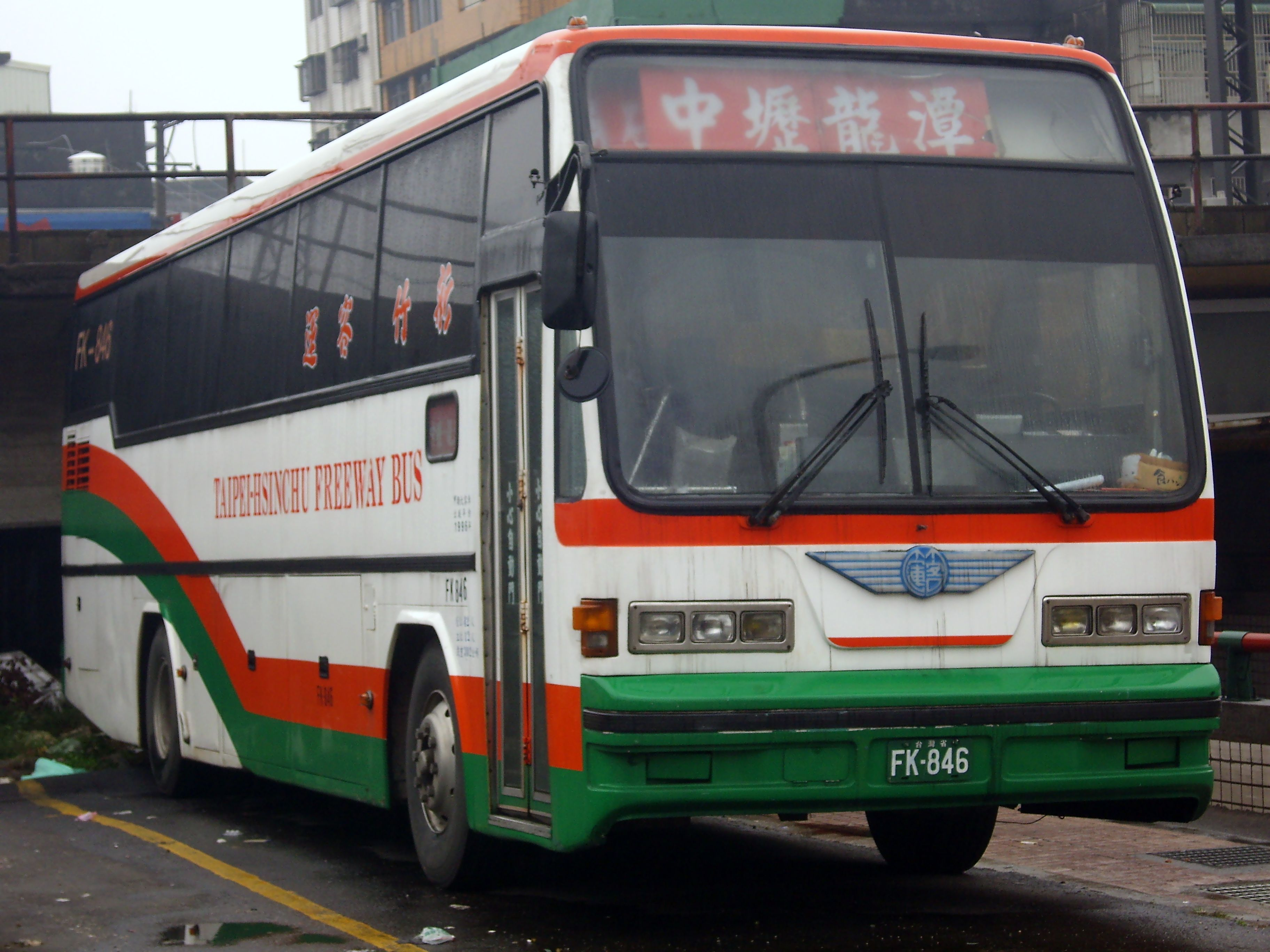 Hsinchu Bus- ISUZU K-CPM-580.